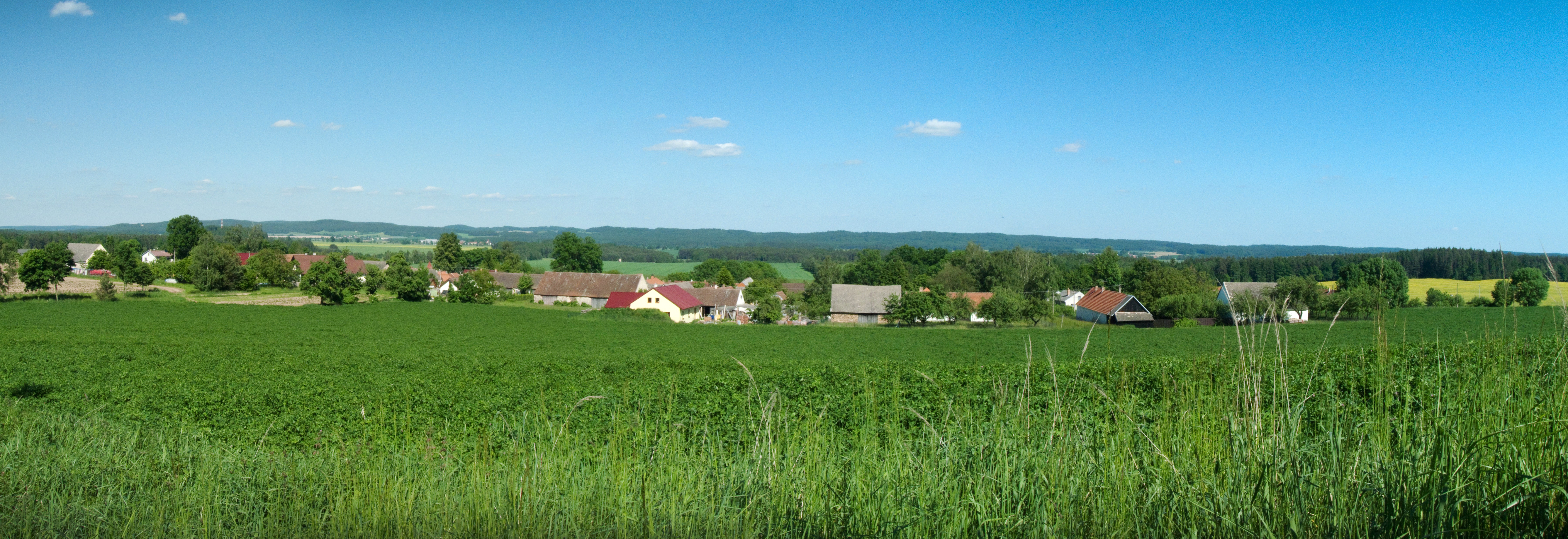 Panoramatic view of the village of Višňová, Jindřichův Hradec district, Czech Republic